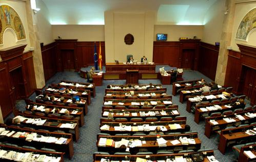 View of the debate room of the Assembly of the Republic of Macedonia.